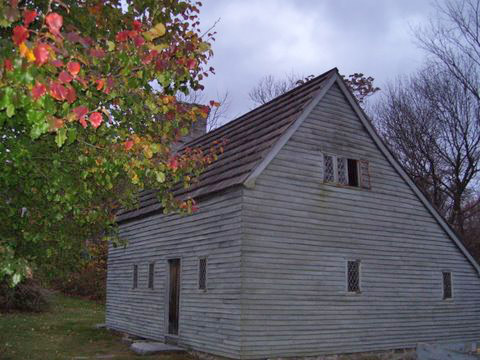 My 2009 photo of the Clemence Irons House in Johnston, RI.